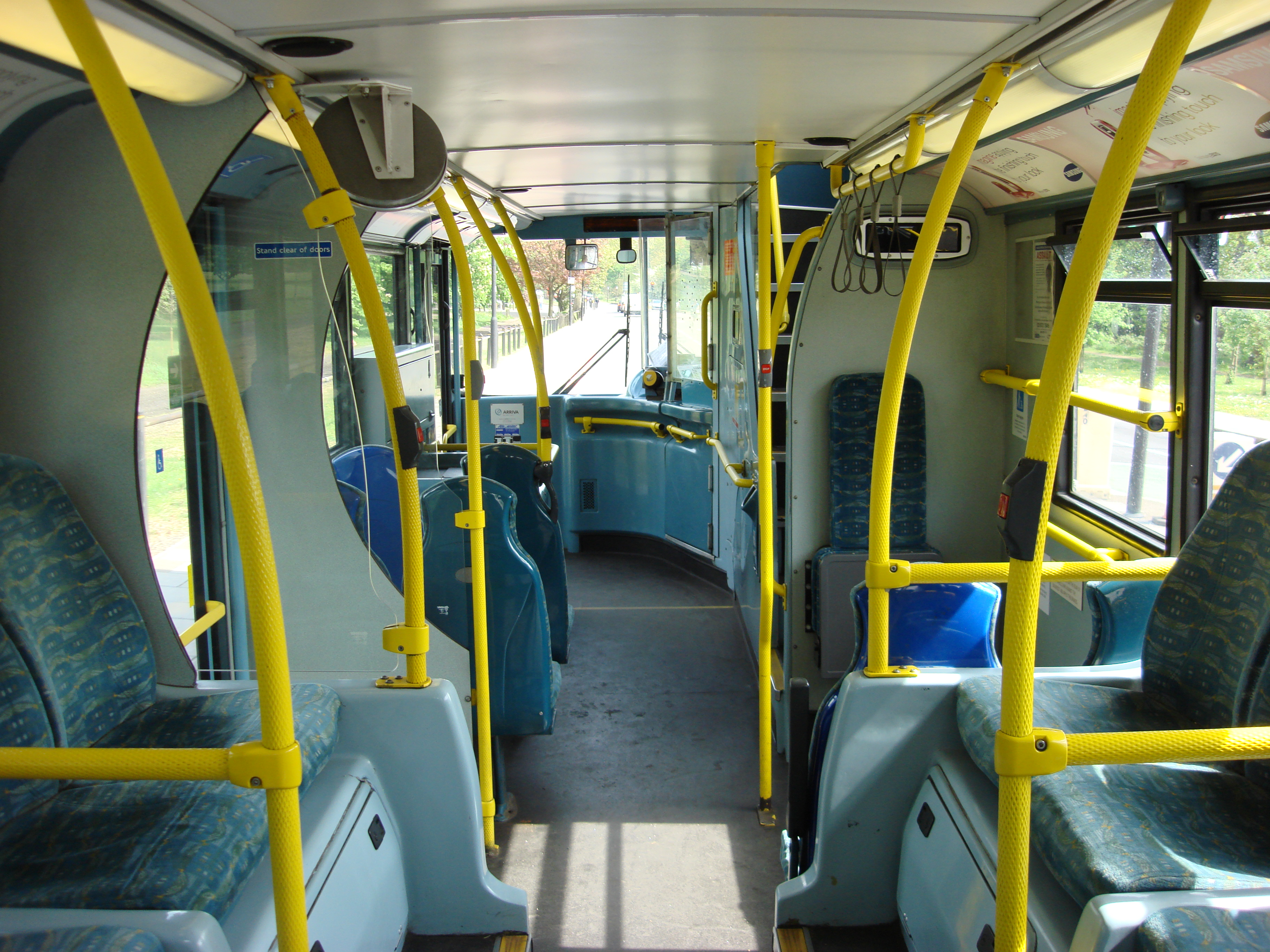 The interior of a bus on London Buses route 249